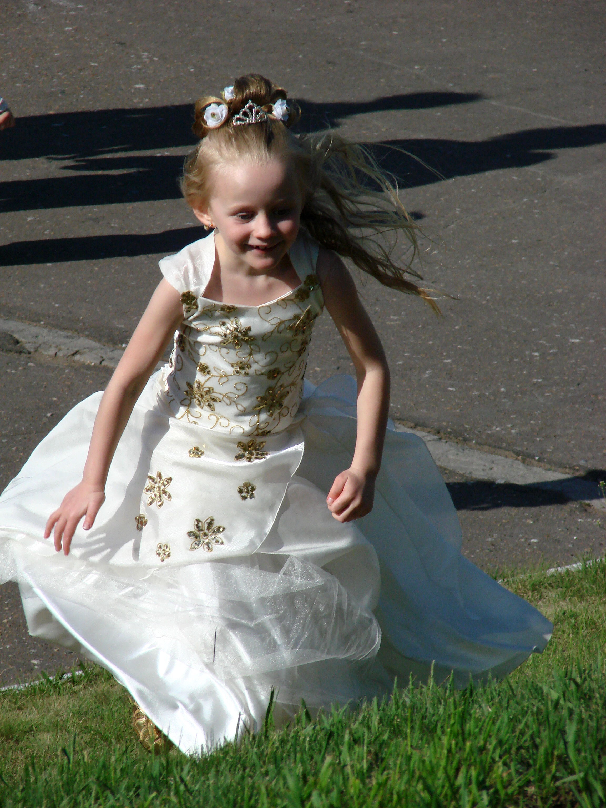 A young girl in formal dress plays by the riverfront in Omsk, Russia. May 2008.